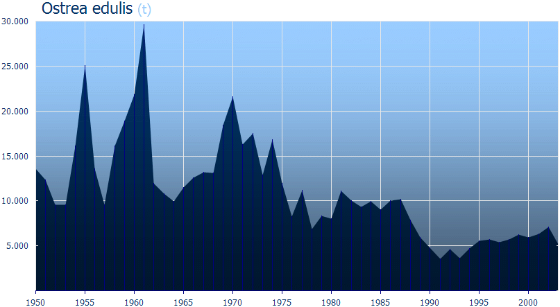 Oyster production , global